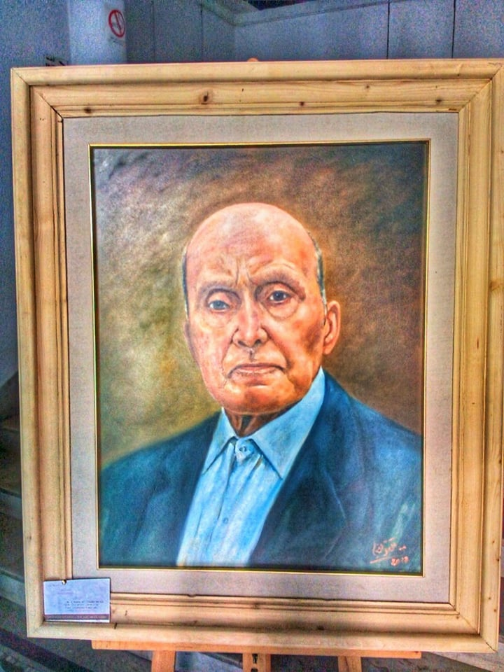 Tunis, Tunisie / تونس العاصمة، تونس